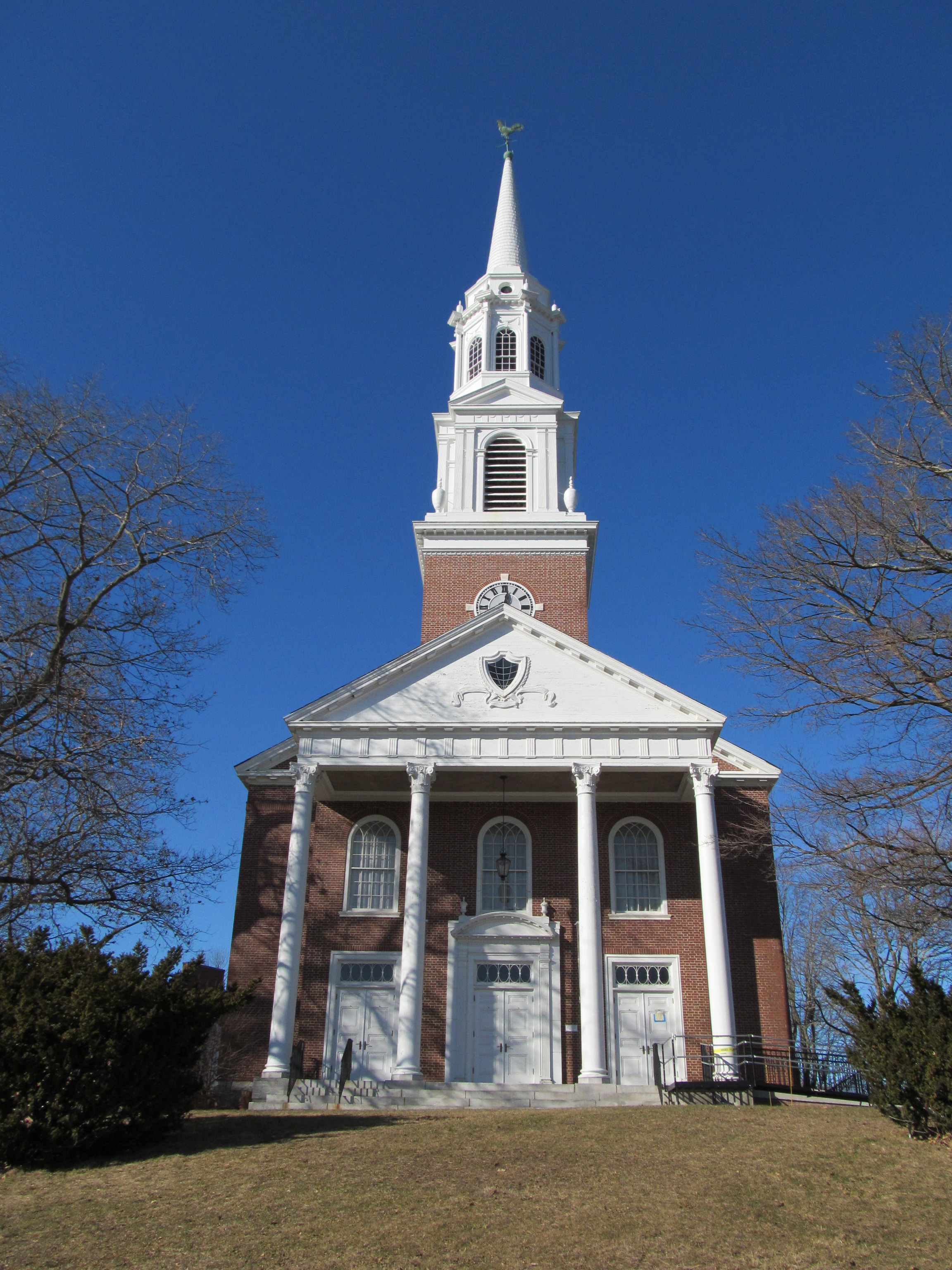 Storrs Congregational Church, Storrs Connecticut